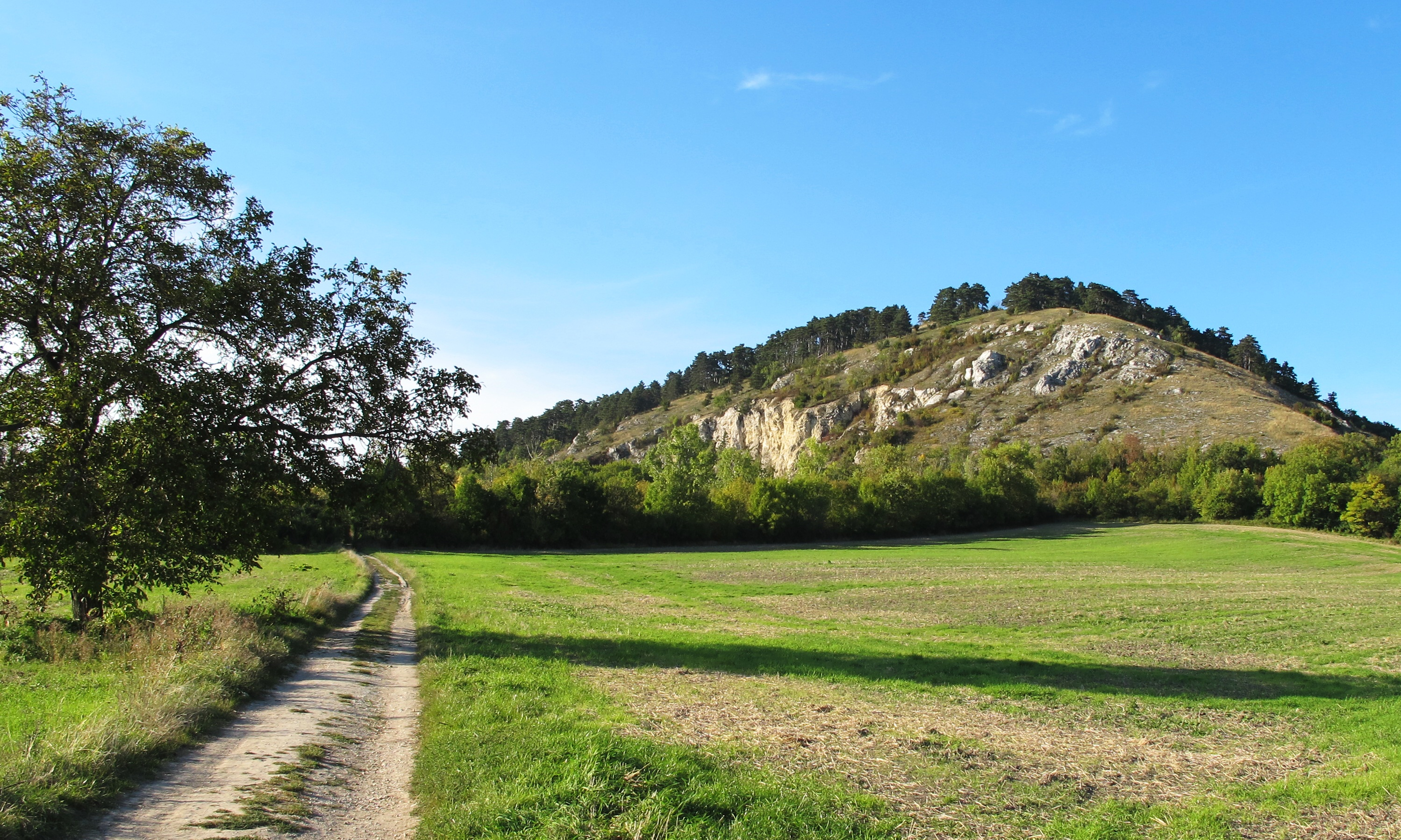 National nature reserve Děvín-Kotel-Soutěska, Břeclav District